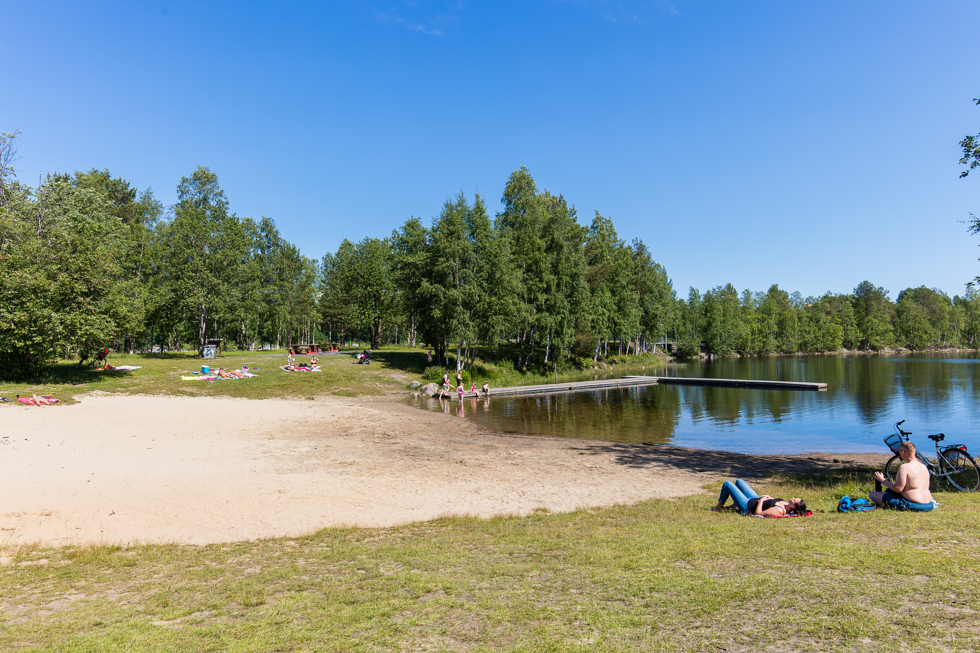 Bölesholmarna are a couple of small islands i the Ume River, about a kilometre upstream from central Umeå.